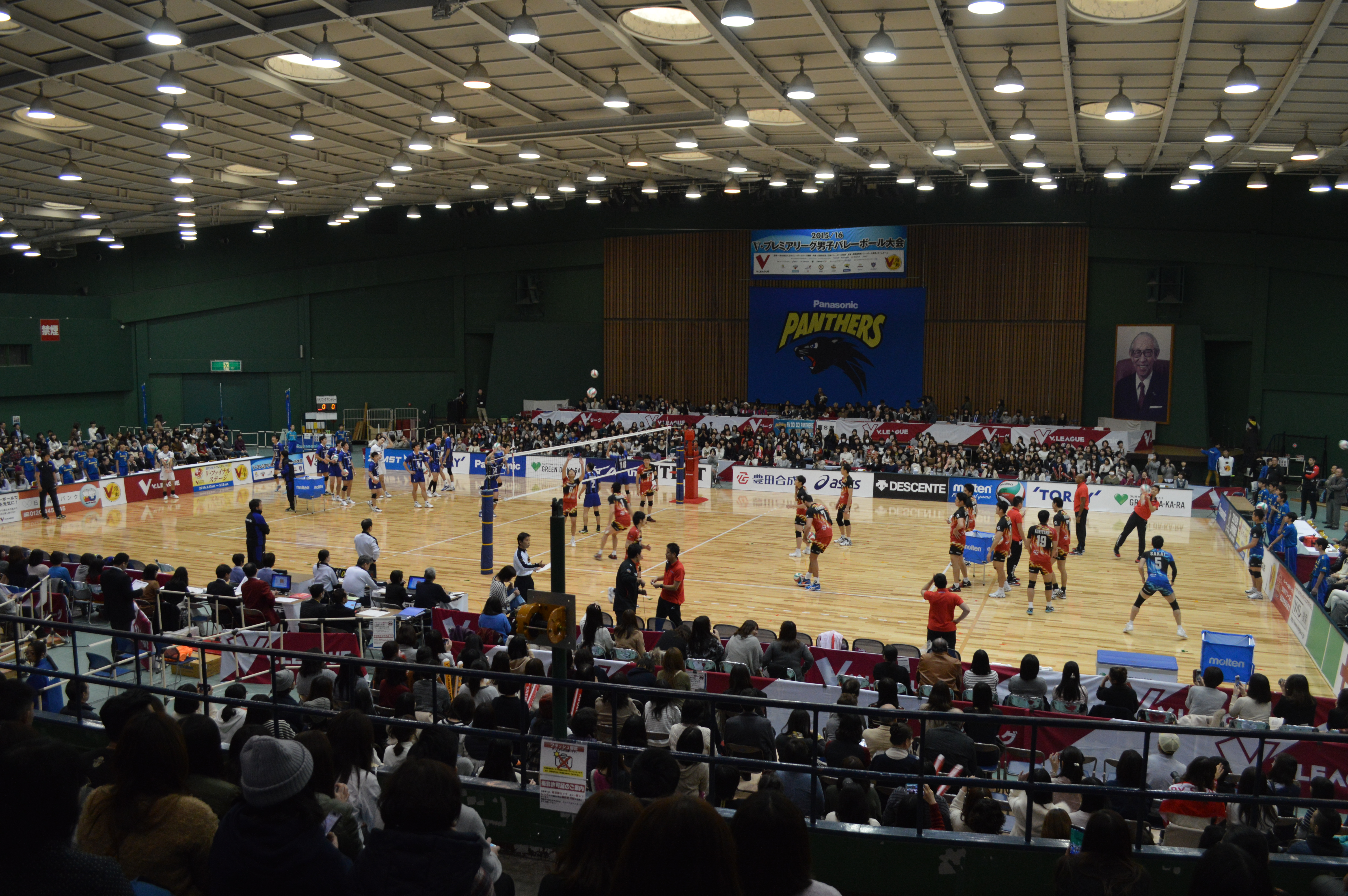 Panasonic Arena (Matsushita Electric gimnasium), Hirakata, Osaka, Japan